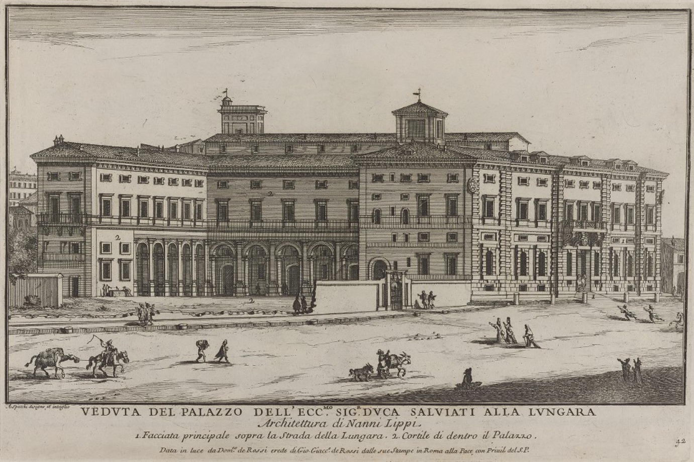 View of the Palazzo Salviati along the Via della Lungara, Rome, Italy. Includes a view of the Palazzo's main facade facing the Strada della Lungara (1 in image) and the courtyard next to the Palazzo (2 in image), viewable through a cutaway courtyard wall.